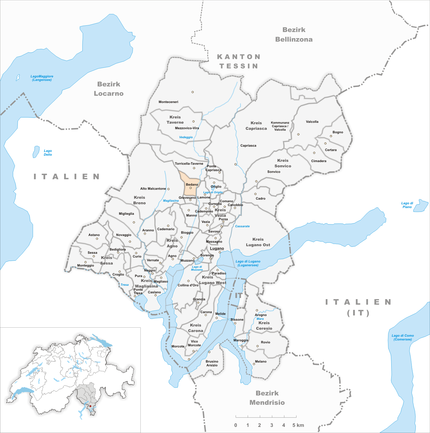 Municipality Bedano